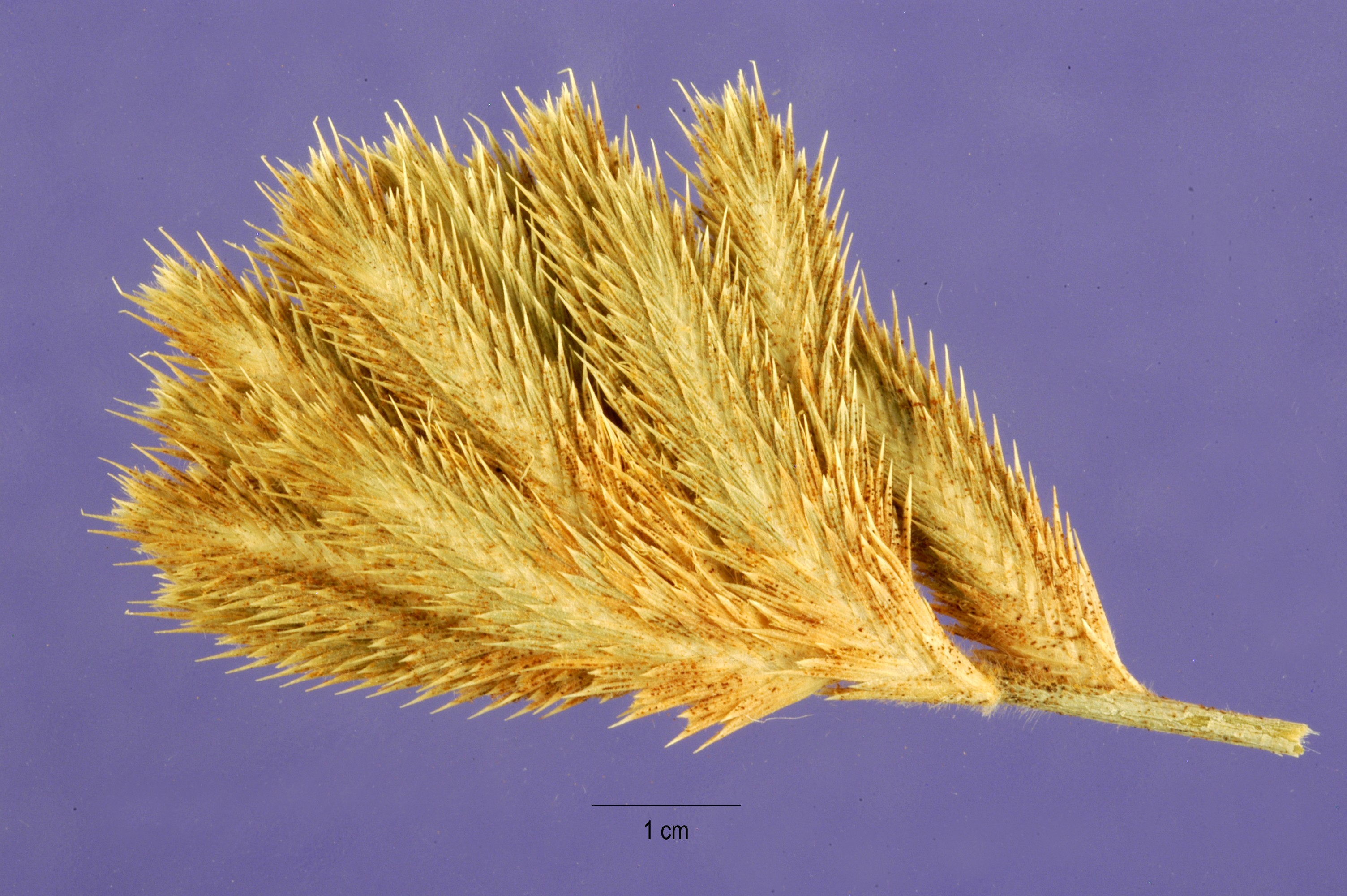 Orcuttia californica - Endemic bunchgrass of California. from Jose Hernandez. Provided by ARS Systematic Botany and Mycology Laboratory. United States, CA.